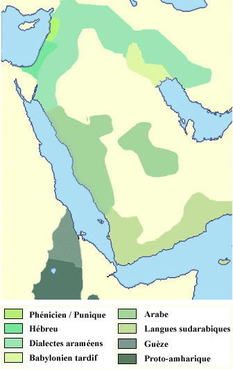 This map seems to represent ca. 600 BC, while the claimed vector replacement File:Semitic 1st AD.svg seems to represent ca. 50 AD.